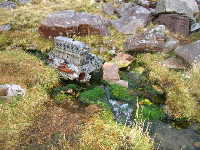 Lancaster wreckage, Coire Mhic Fhearchair. This Merlin engine is part of much scattered wreckage from the Lancaster bomber which crashed into the Triple Buttress headwall on a training flight in 1951, killing all 8 on board.